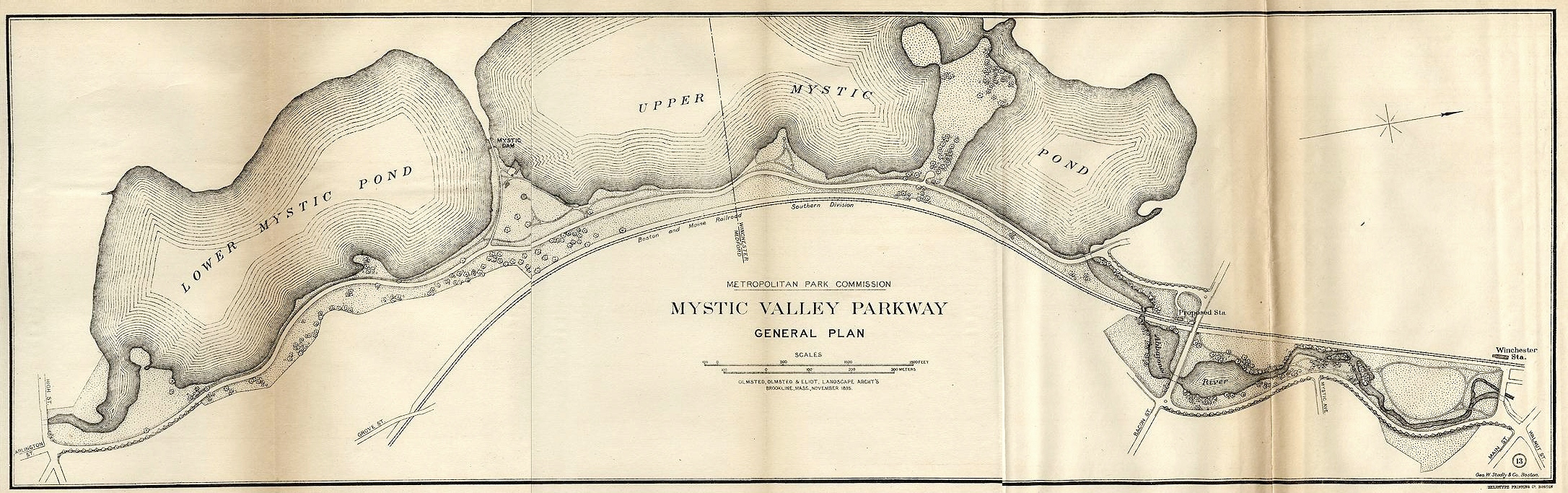 General Plan of the Mystic Valley Parkway, Winchester, Massachusetts. This is actually only a small section of the entire parkway, detailing the north-south stretch along the Upper and Lower Mystic Lakes. This image was produced by the landscape architects Olmsted, Olmsted, and Eliot under the direction of partner Charles Eliot.